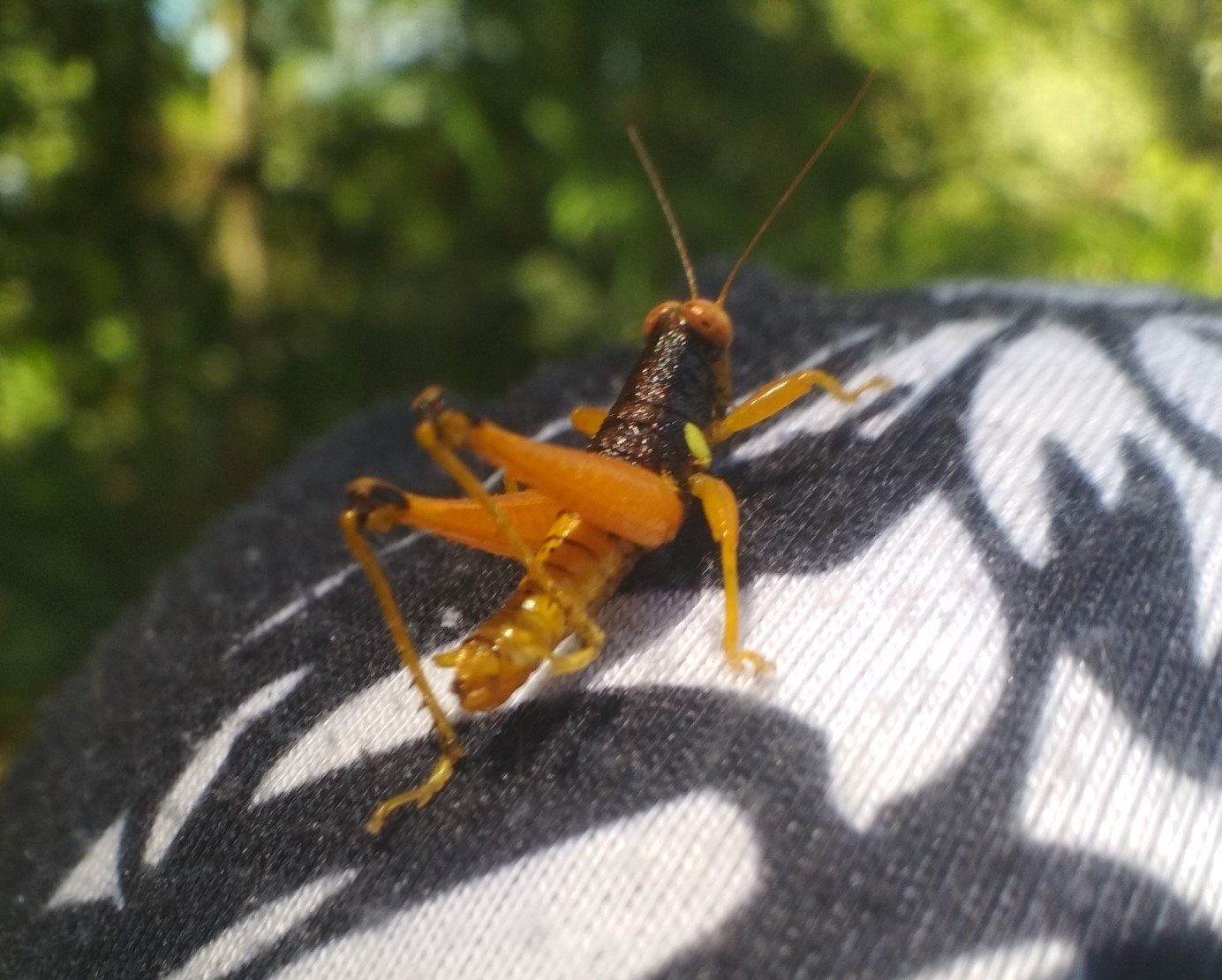 Psiloscirtus apterus. Species of insect.